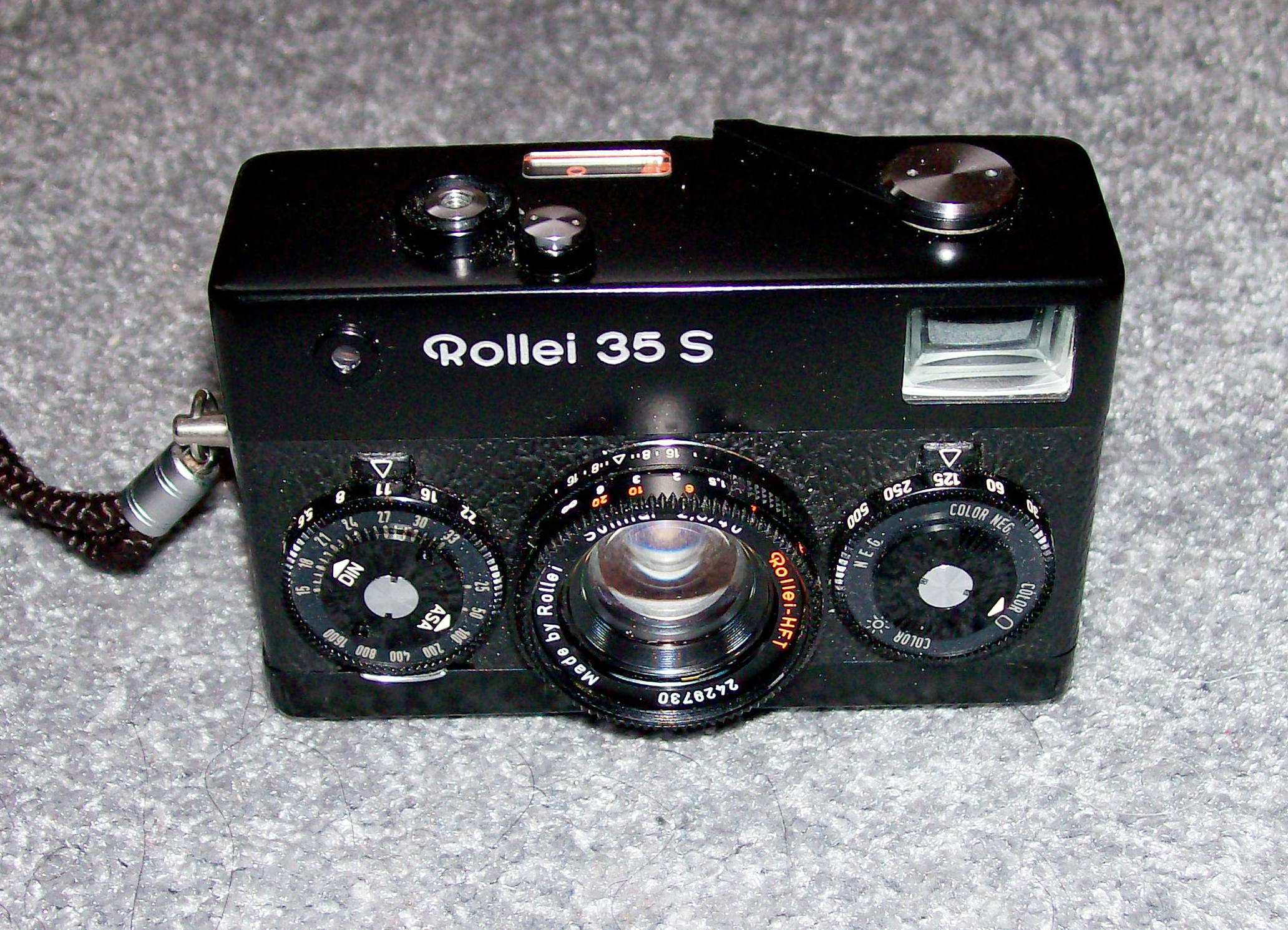 black Rollei 35S with Rollei HFT Sonnar 40mm/2.8 lens